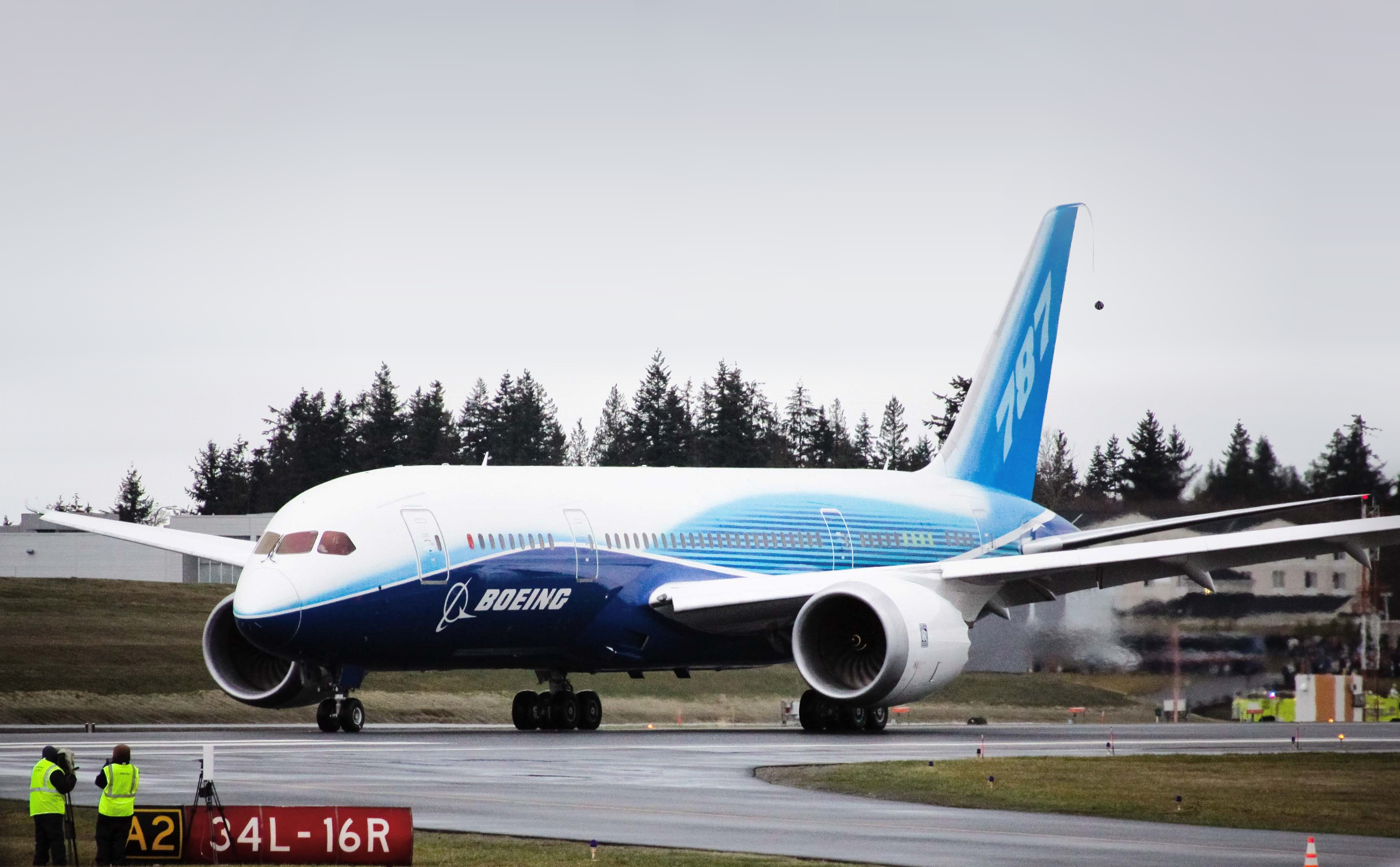 My photos that I took at today's First Flight of the Boeing 787 Dreamliner.